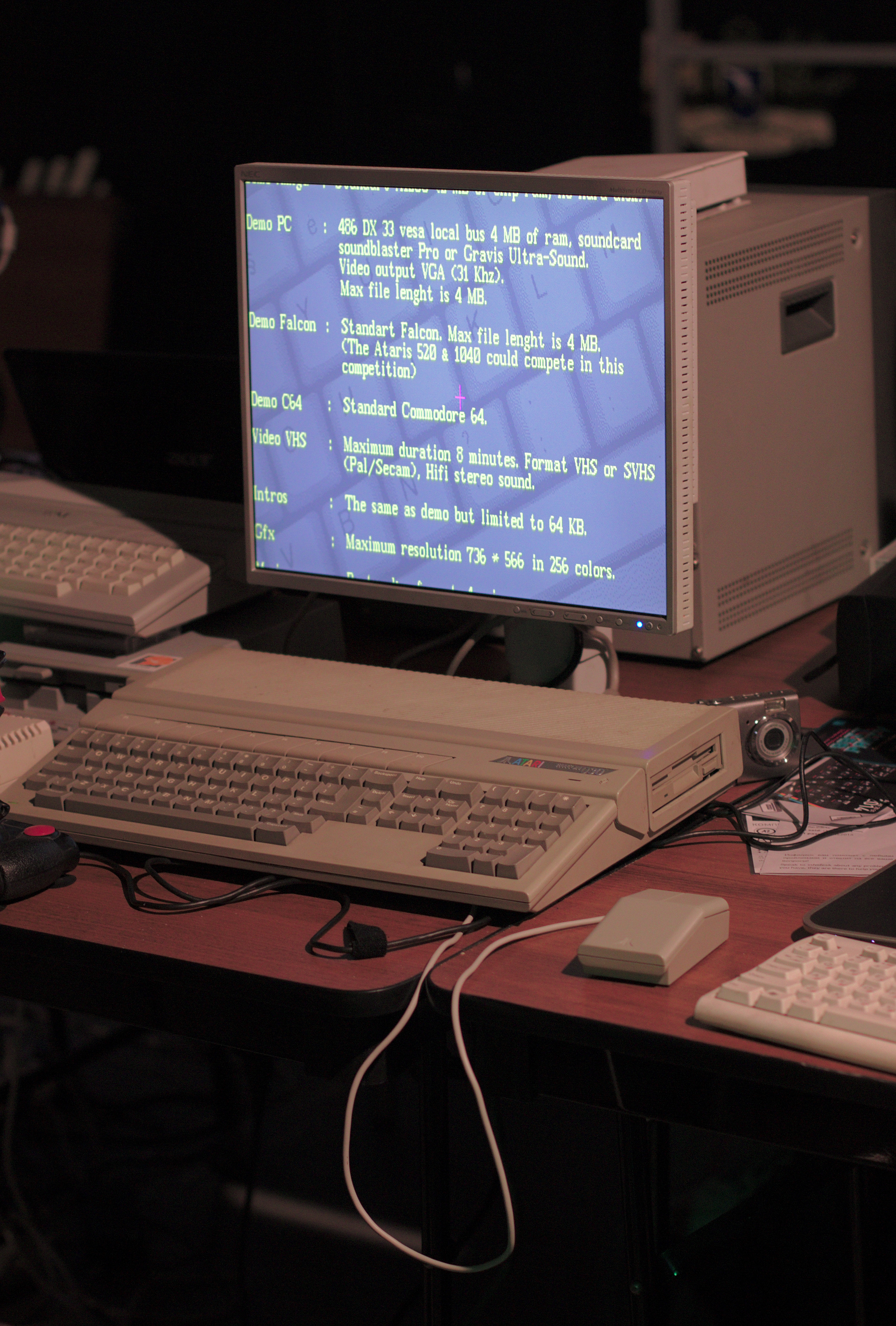 Angled view of the Atari Falcon 030